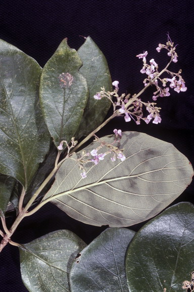 Cornutia obovata USFWS photo